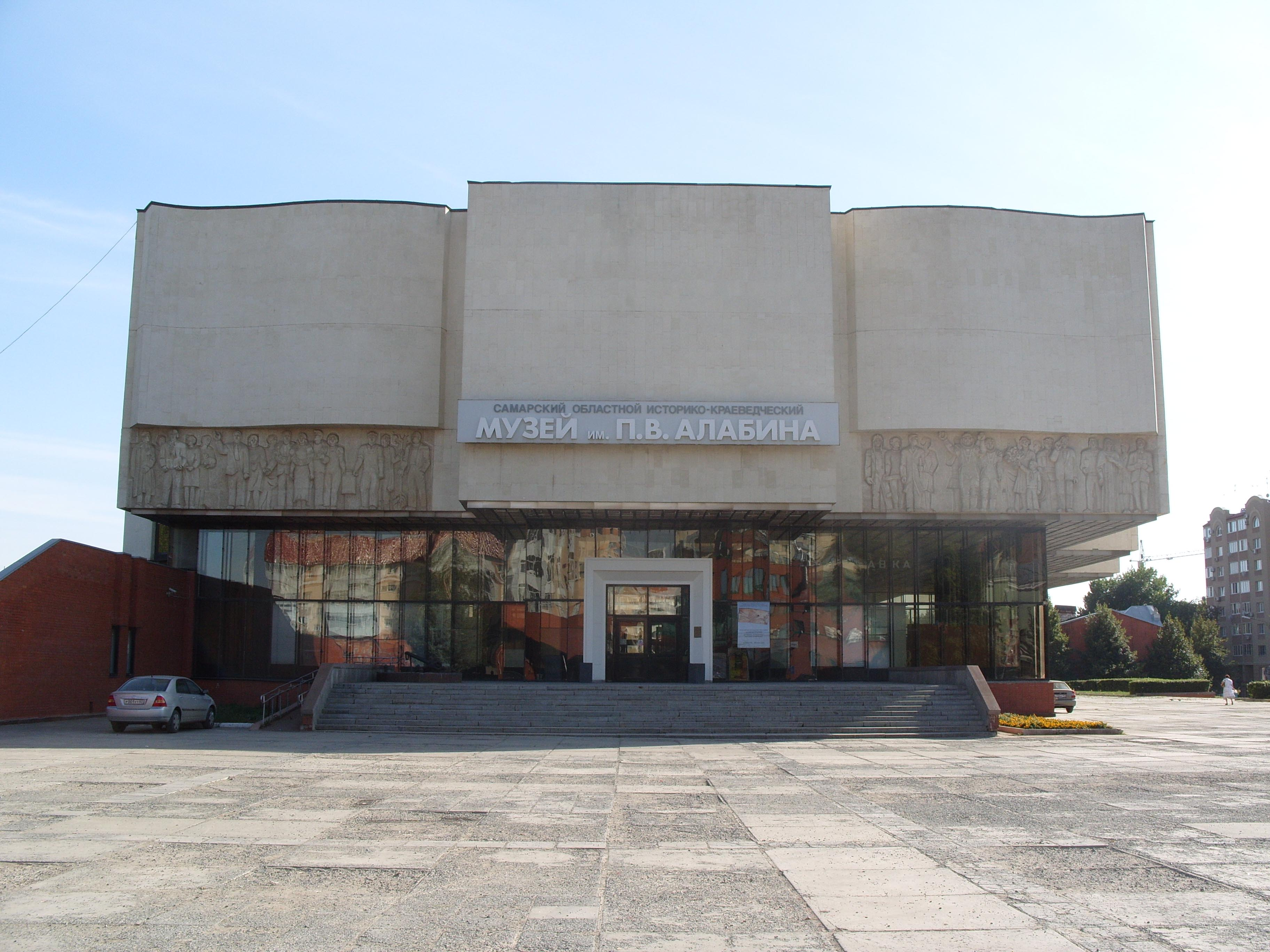 Alabin Museum in Samara